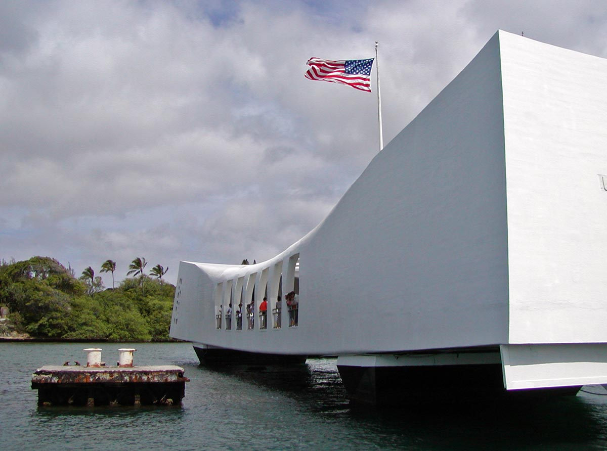 Photo of Arizona Memorial